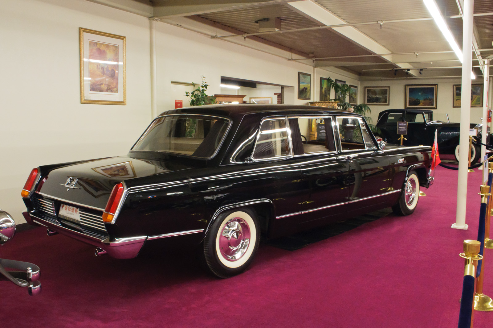 Seen at the famous Auto Collection at The Quad (formerly Imperial Palace), Las Vegas. Hongqi (红旗 - "Red Flag") was China's first indigenous automotive brand, and the CA770 was its definitive model, built in limited numbers from 1963 through 1980. The CA770 was used exclusively for dignitaries and Communist Party officials. It is said that when US President Richard Nixon made his historic visit to China, and wanted to ship in his own limousines as is usually the case for all US Presidential visits overseas, China insisted that Nixon ride in the "mechanically superior, more comfortable" Hongqi limousine while in China. This example arrived in the US via a classic car exchange between the US and China, and is the very first Hongqi in the US.